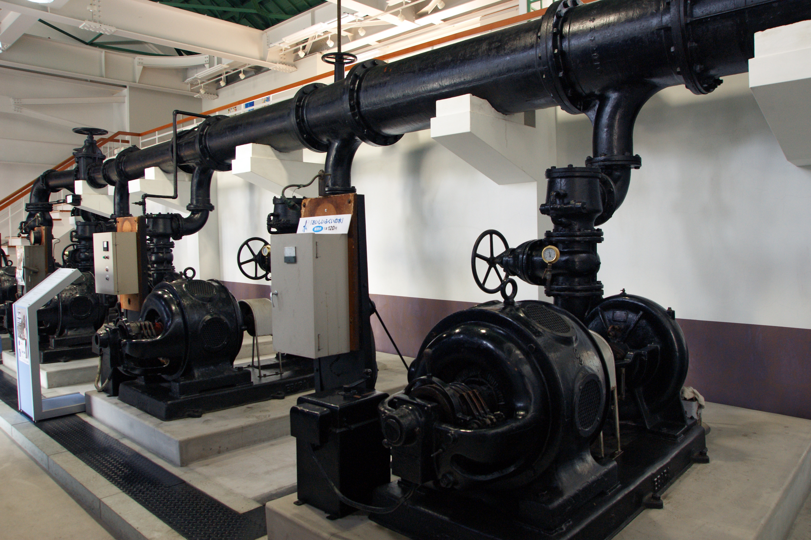 Fukui City Water Service Memorial, Fukui, Fukui prefecture, Japan